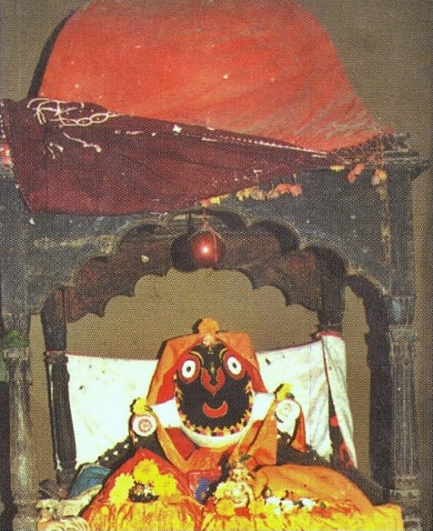 An old Dadhivaman deity in Kendrapara, Odisha. Srila Bhaktivinoda Thakura's great forefather Krishnanada started worshipping this deity in mid-14th century AD.